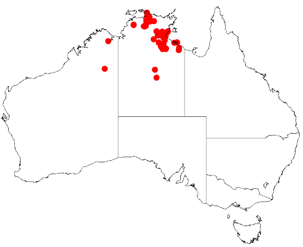 Acacia conspersa Occurrence data from Australasia Virtual Herbarium downloaded from on 8 December 2018